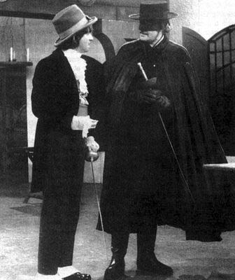 Guy Williams in a sketch with Carlos Balá during an Argentine TV show.